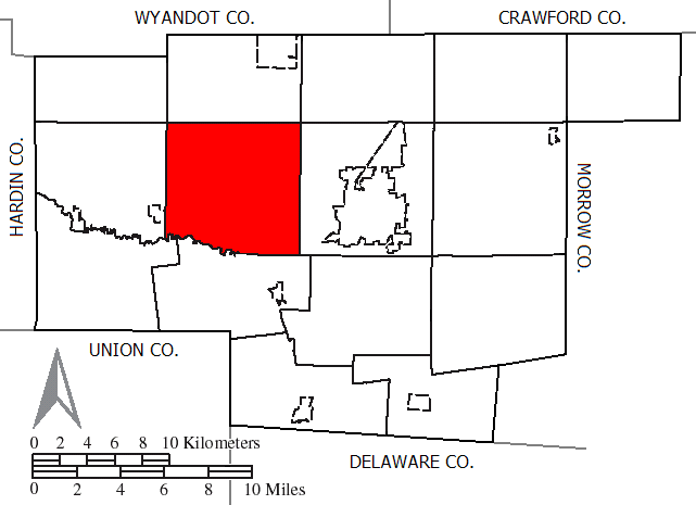 Made by the US Census and modified by myself to highlight the township